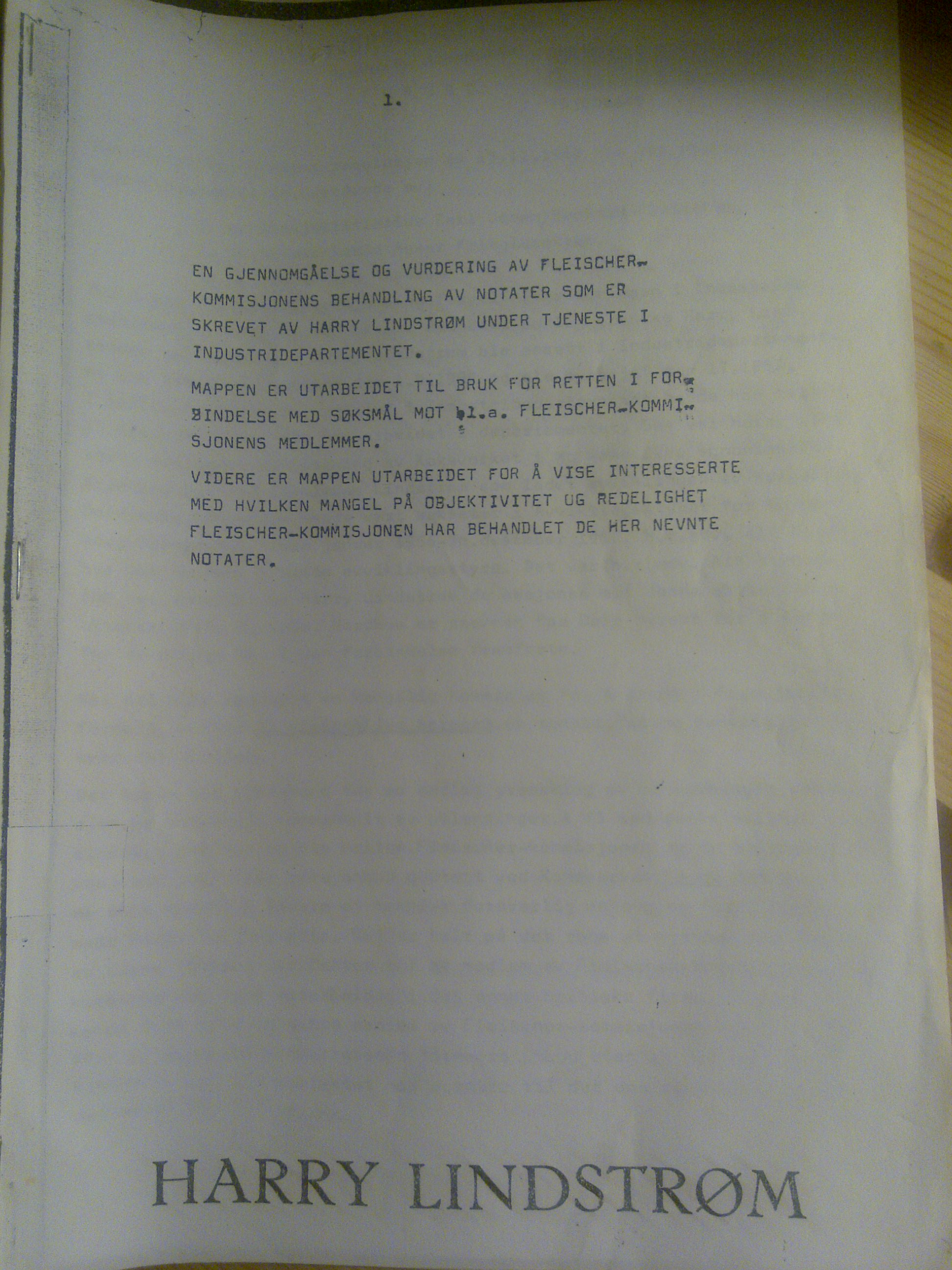 facsimile of the defence document written by deputy director Harry Lindström of the Ministry of Industry, regarding the Kings Bay accident and its consequences.